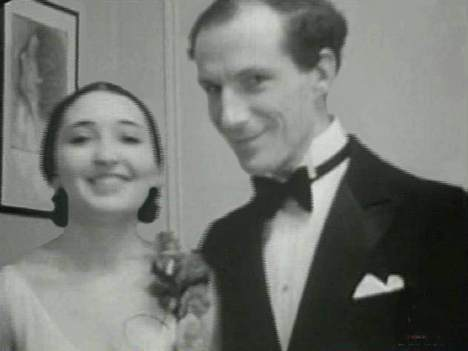 Clara Rockmore and Leon Termen birthday celebrate